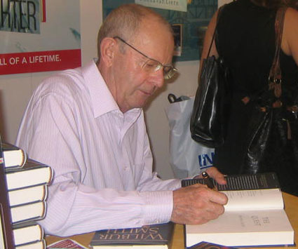 Best selling novelist Wilbur Smith signs The Quest at the Tor/Forge booth.